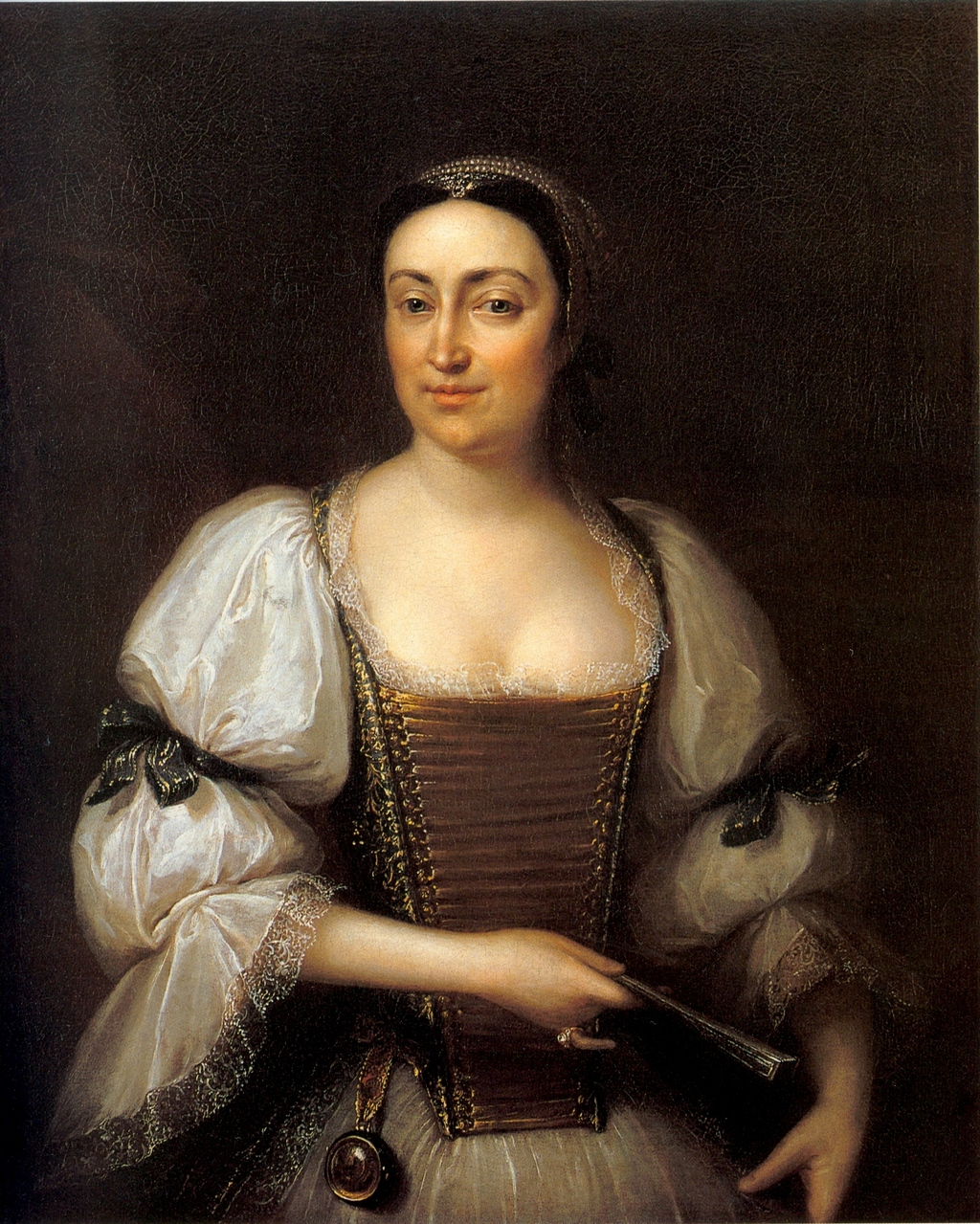 Judit Osztroluczky de Osztroluka (1690–1766), by marriage Mrs. János Podmaniczky de Podmanin et Aszód.